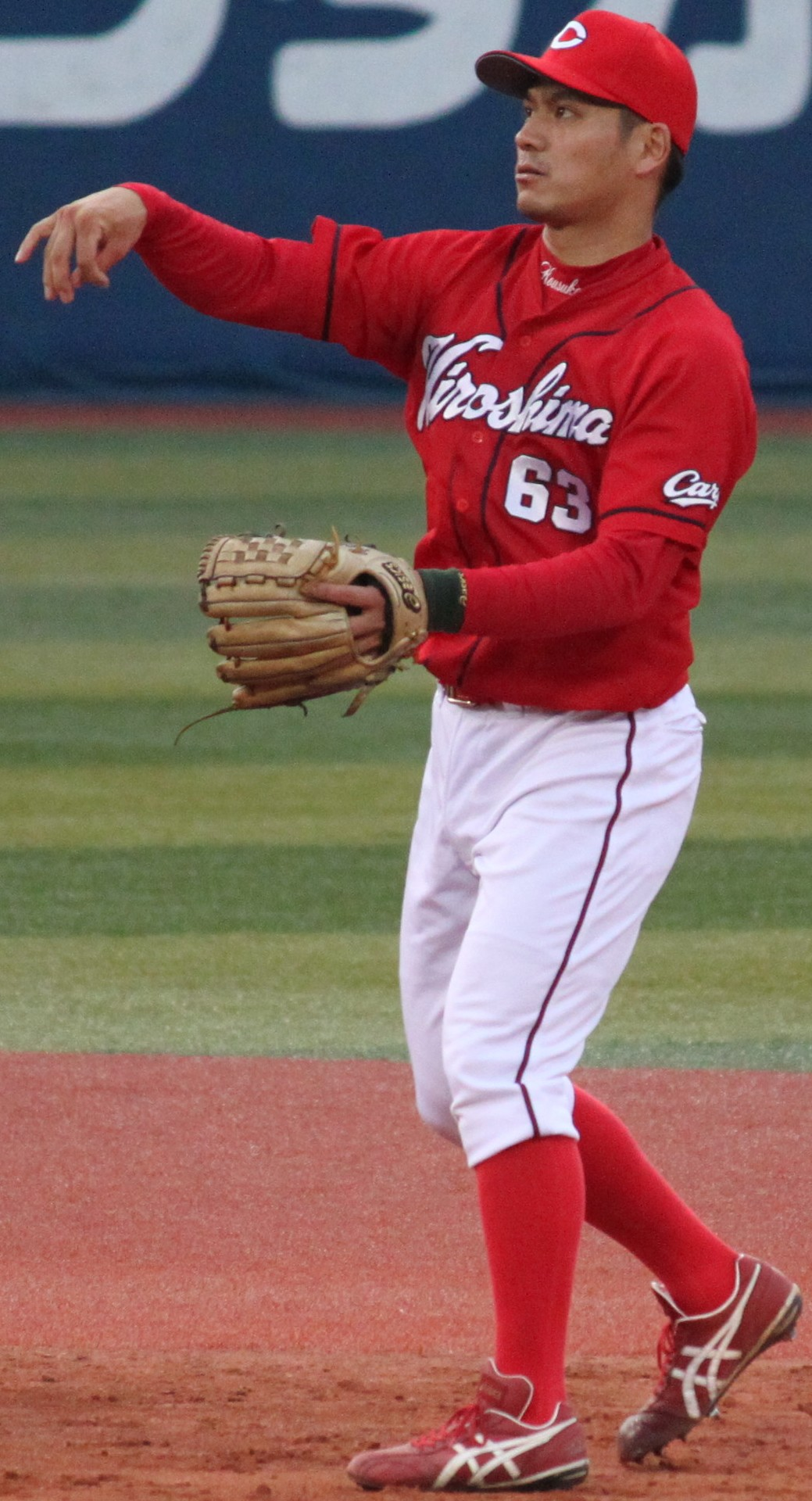 Kosuke Tanaka, infielder of the Hiroshima Toyo Carp, at Yokohama Stadium.